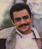 Cover of "Weekly Ettelaat" magazine, No.1778, showing "Googoosh" (Persian songstress & actress) and "Changiz Vosughi" (Persian actor) together